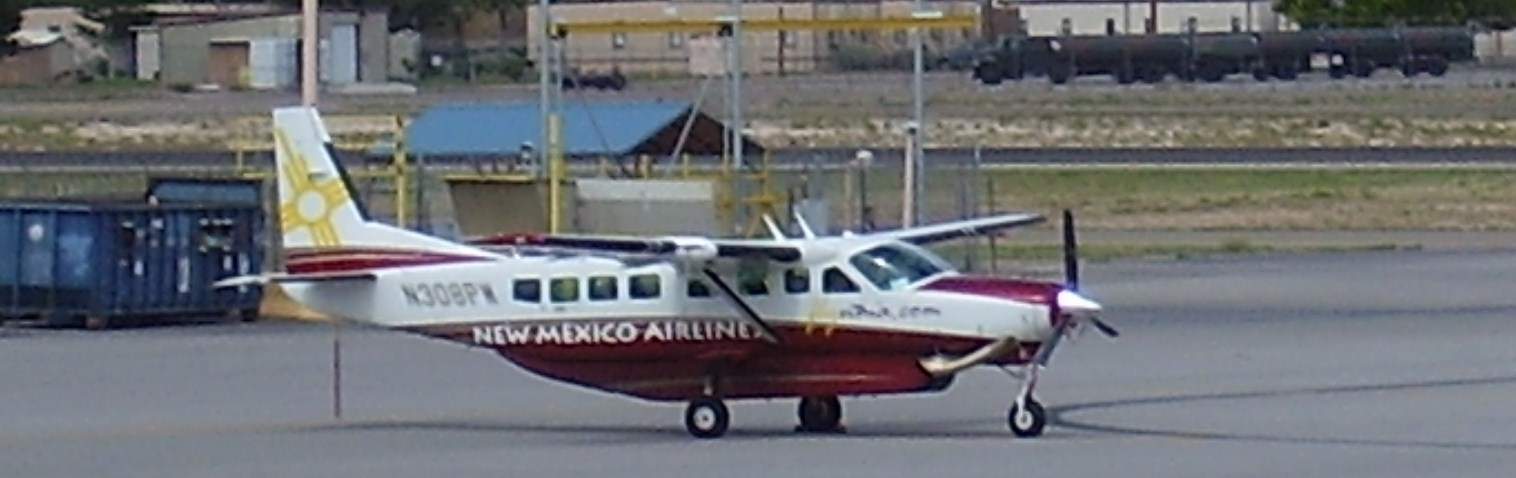 Cessna 208 of New Mexico Airlines